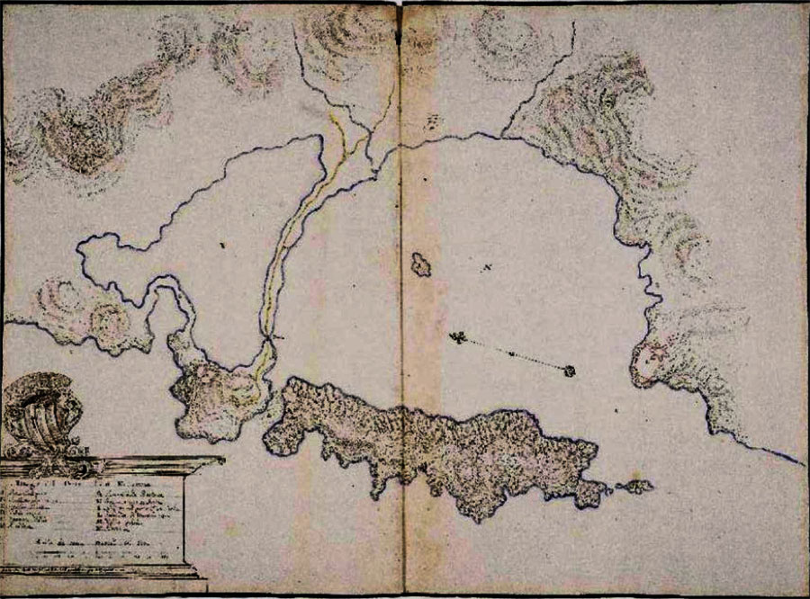 This plan of the Bay of Navarino was made in the beginning of the 18th century for Venice commandor Francesco Grimani